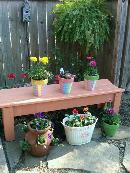 Corner of a cottage garden